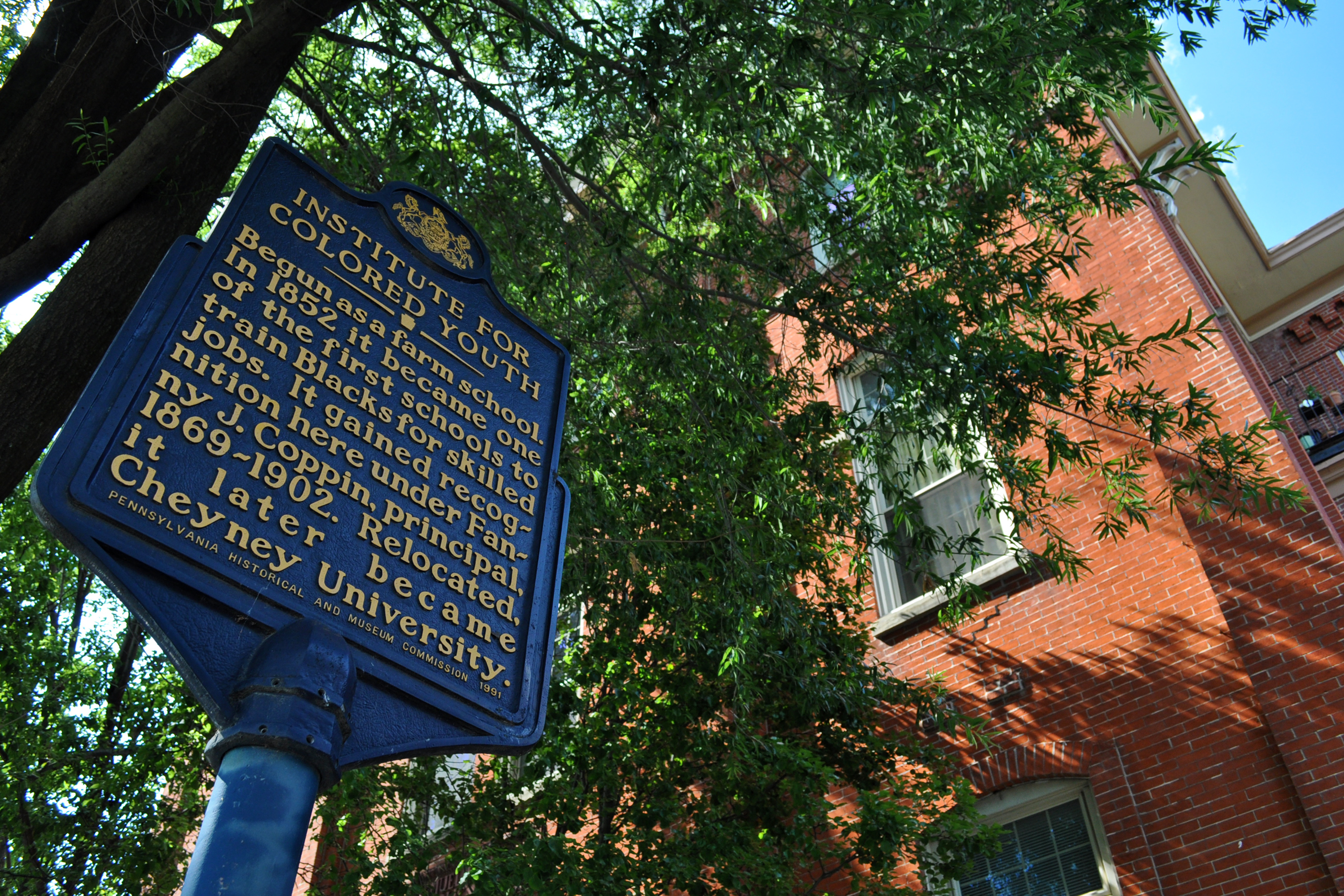 Institute for Colored Youth Building Historical Marker 915 Bainbridge St Philadelphia PA 19147